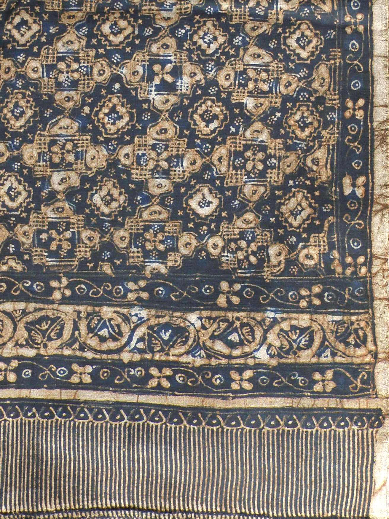 Small detail of a Balinese Batik Perada. The gold has almost completely disappeared but the dark glue marks remain. 60 to 80 years old. from the collection of Balique Arts of Indonesia.